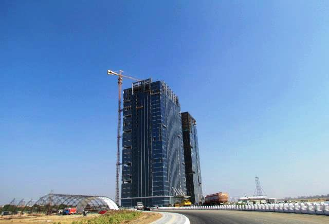 Tallest tower in Gujarat till March 2013